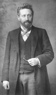 William Edward Ayrton (1847-1908)